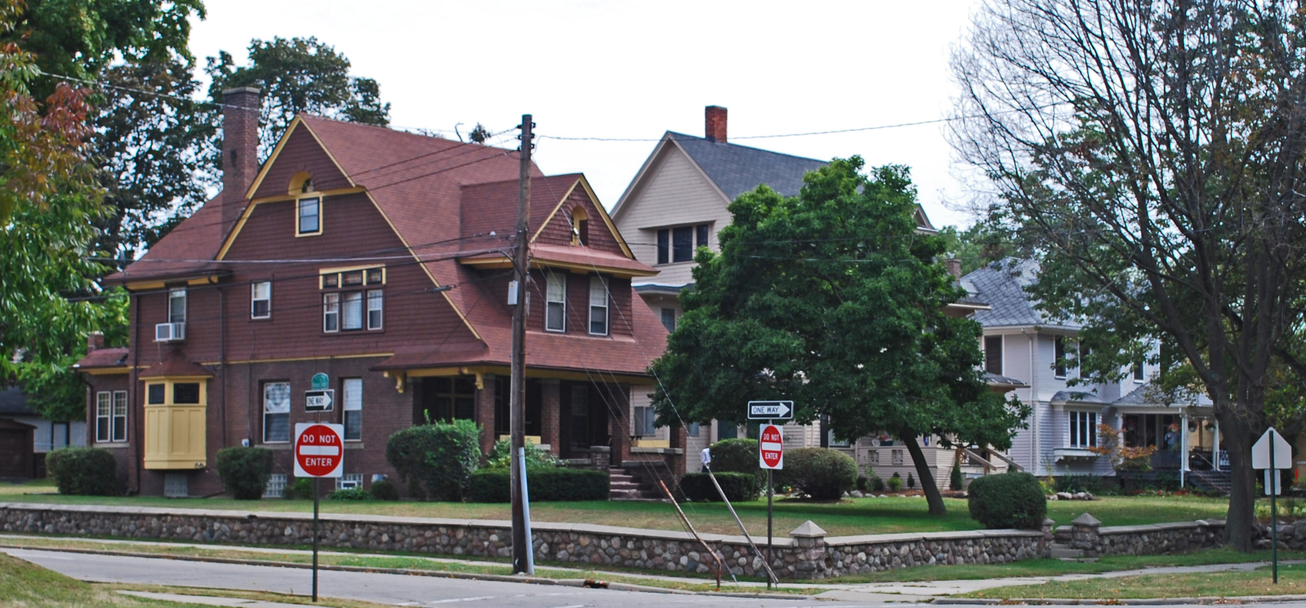 Franklin Boulevard Historic District Pontiac MI-Franklin south of Huron